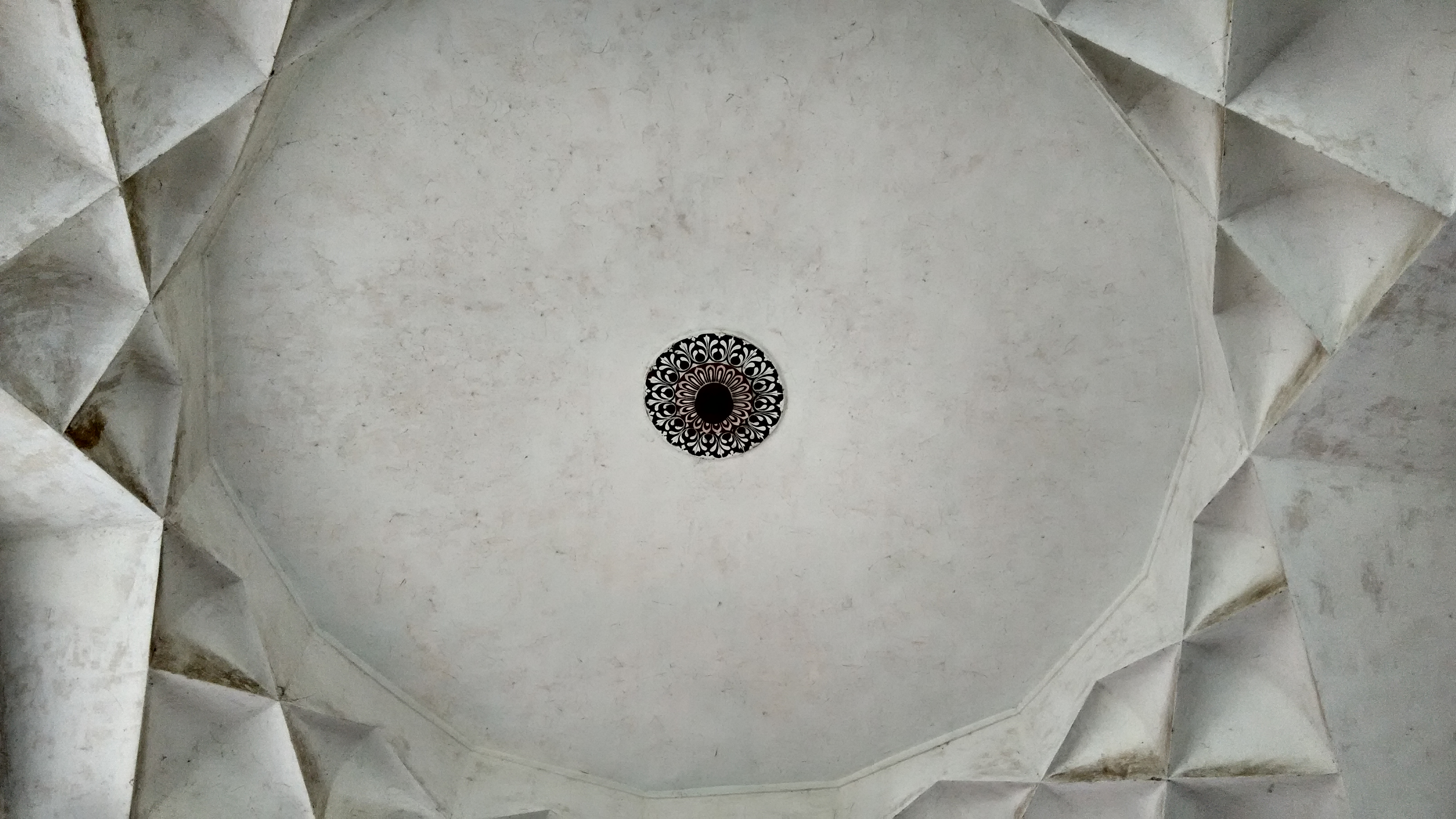 the architecture inside golconda fort